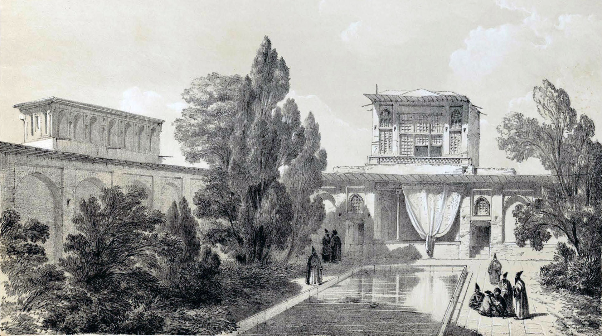 Courtyard of the Palace of Qasr e Qajar , near Tehran